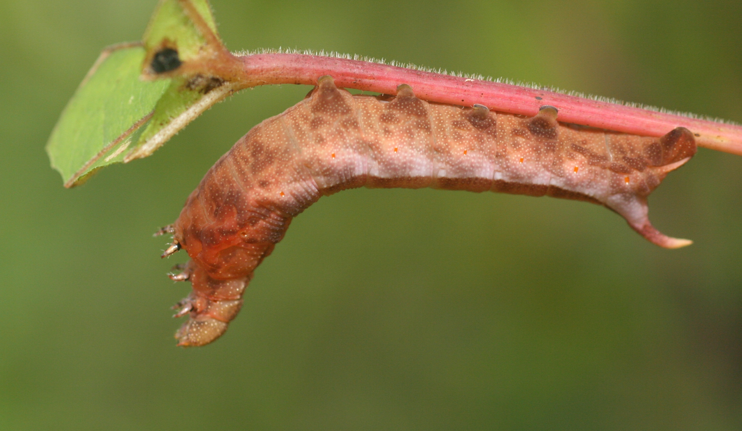 Amphion floridensis Nessus sphinx larva